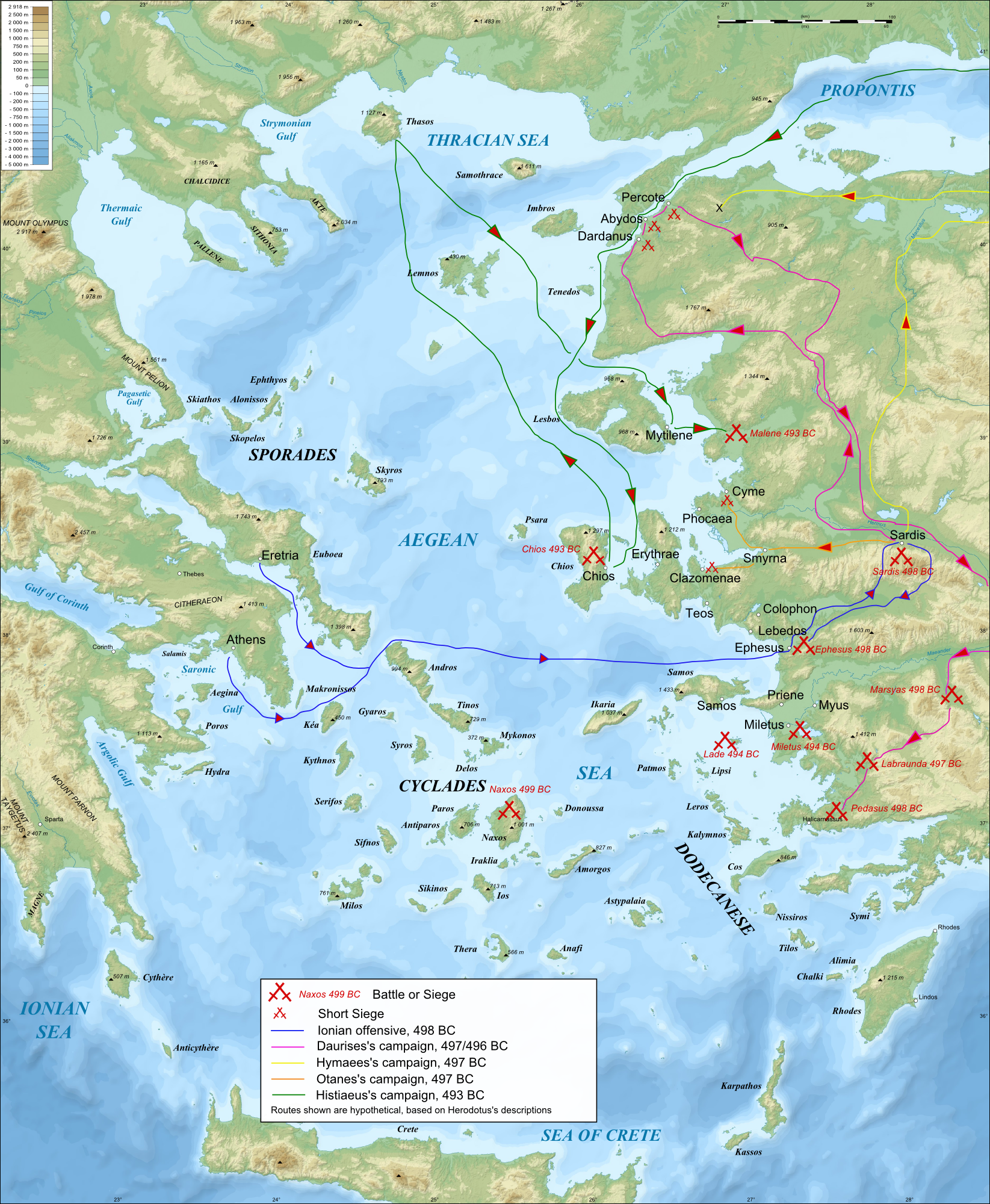 Bathymetric/Topographical map of the Aegean area in c.500 BC, showing major events of the Ionian Revolt. UTM projection; WGS84 datum ; shaded relief Scales: Topography: 1:608,000 (precision 152 m) Bathymetry: 1:7,512,000 (precision 1,878 m)